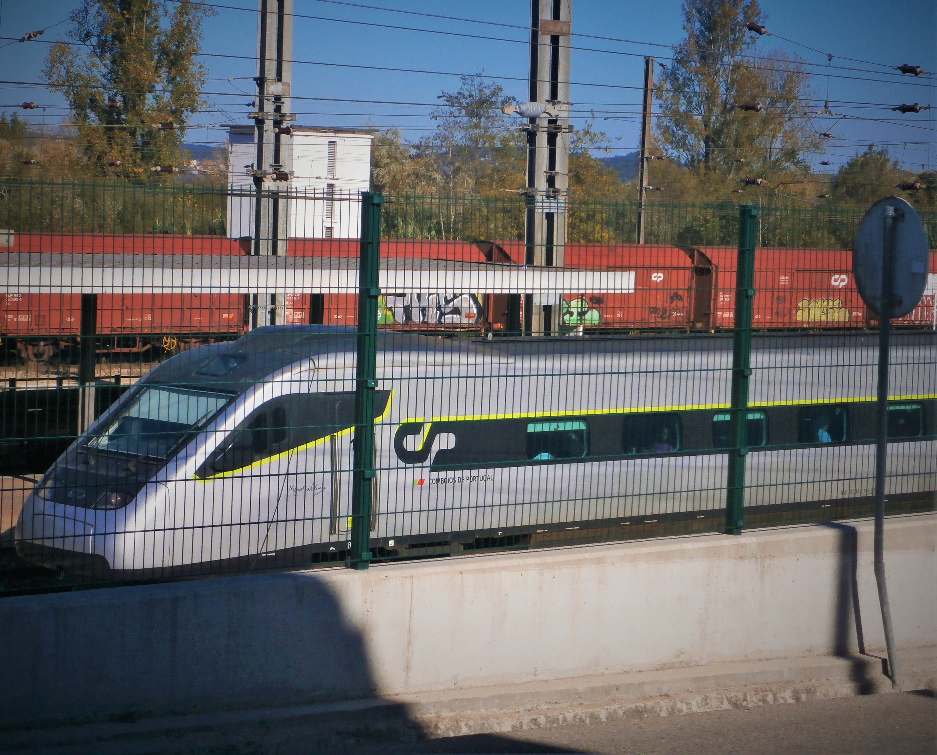 Refurbished Alfa Pendular, CP 4000 Series, at Alfarelos train station. Photo taken at 15 November 2017.